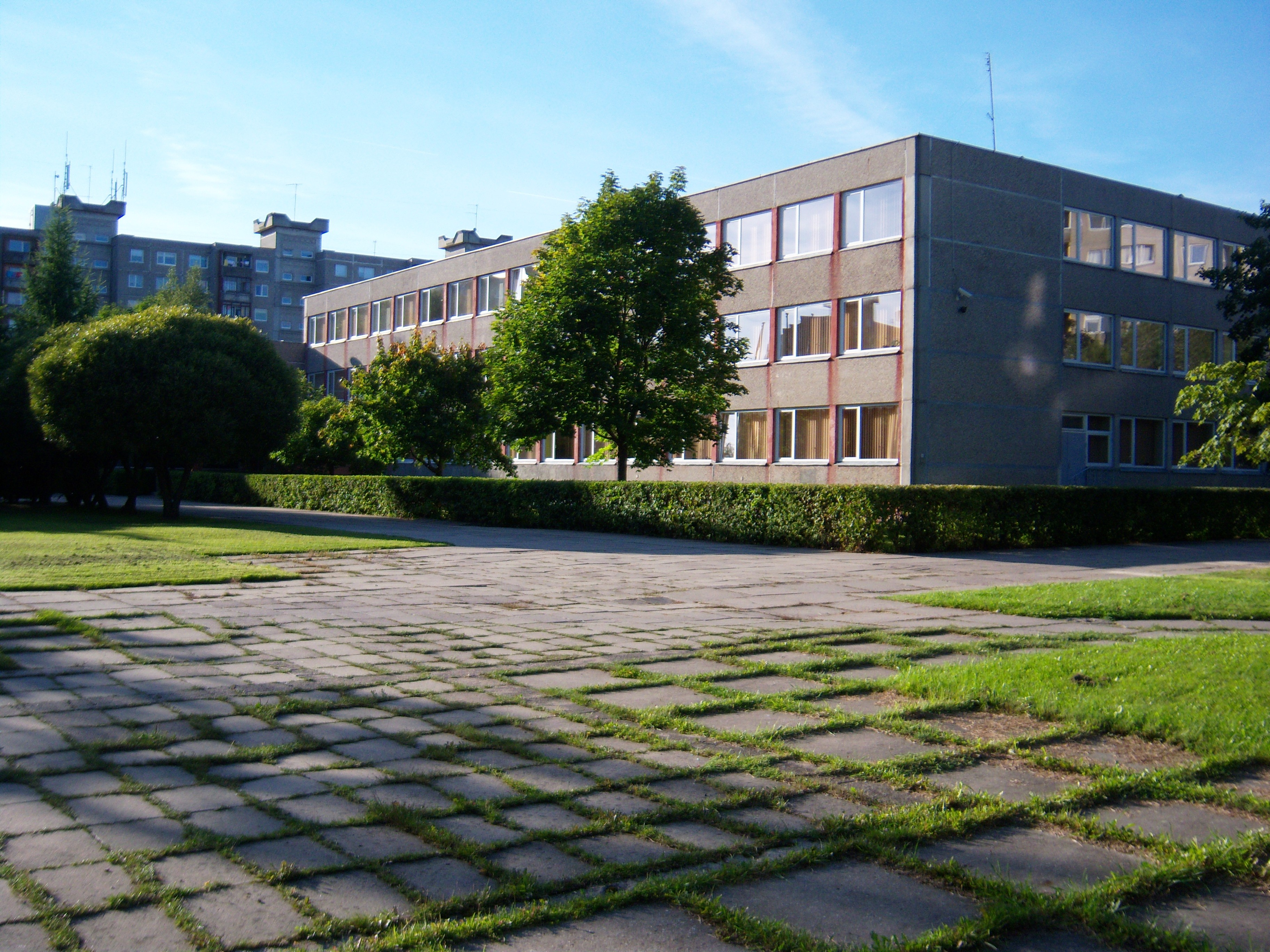 Tadas Ivanauskas Secondary School, Kaunas, Lithuania